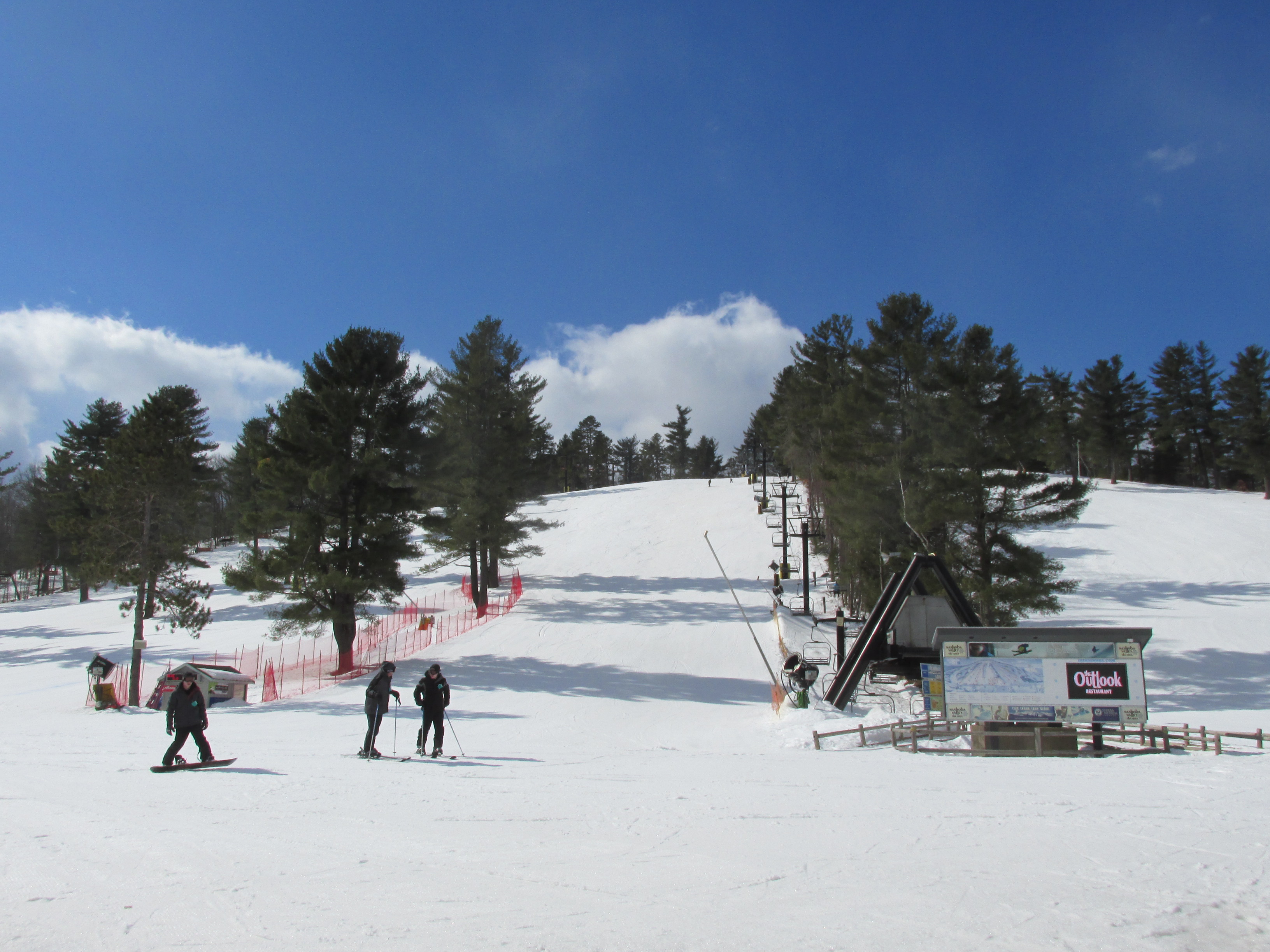 Nashoba Valley Ski Area, Westford Massachusetts - 2014